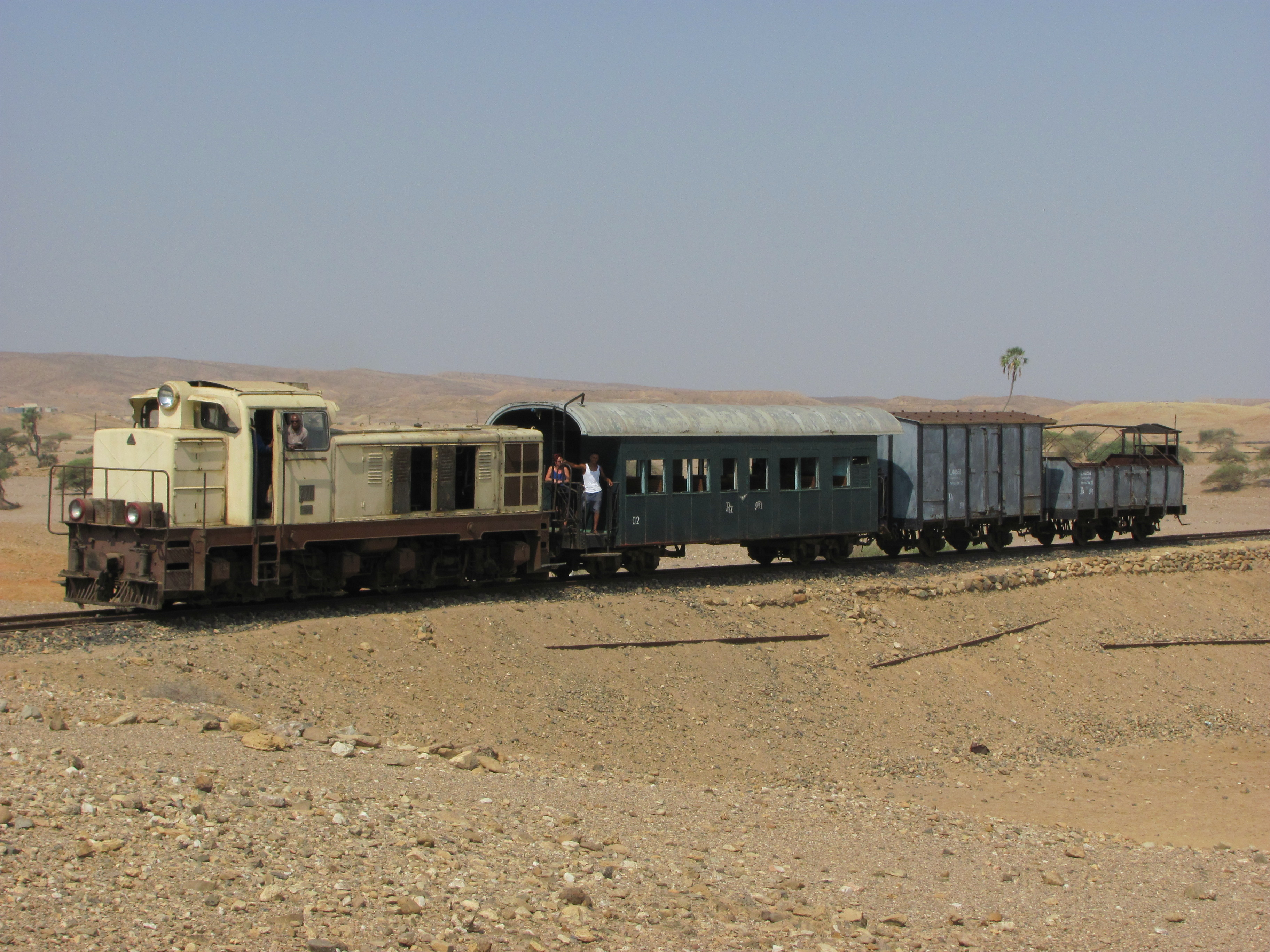 Train, Eritrea